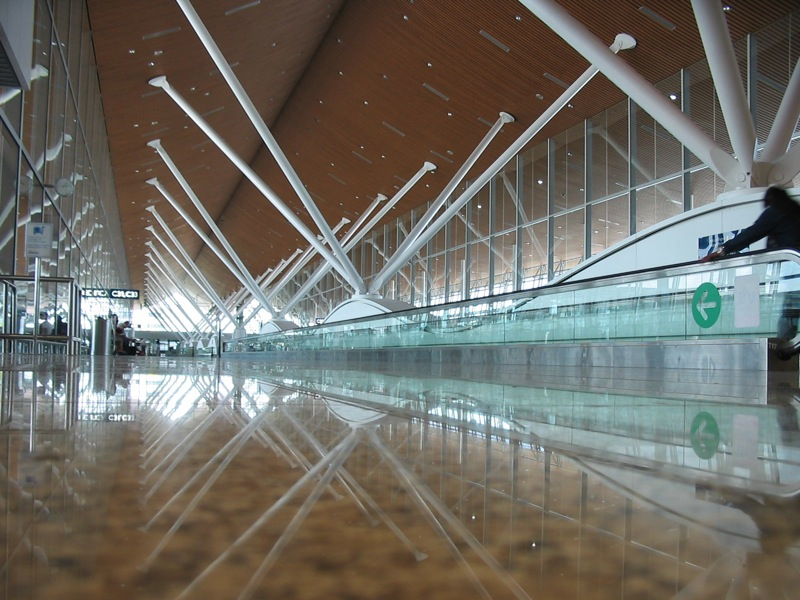 Satelite Terminal in KLIA